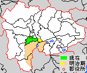 Location Map of Ichikawamisato in Yamanashi Prefecture, Japan